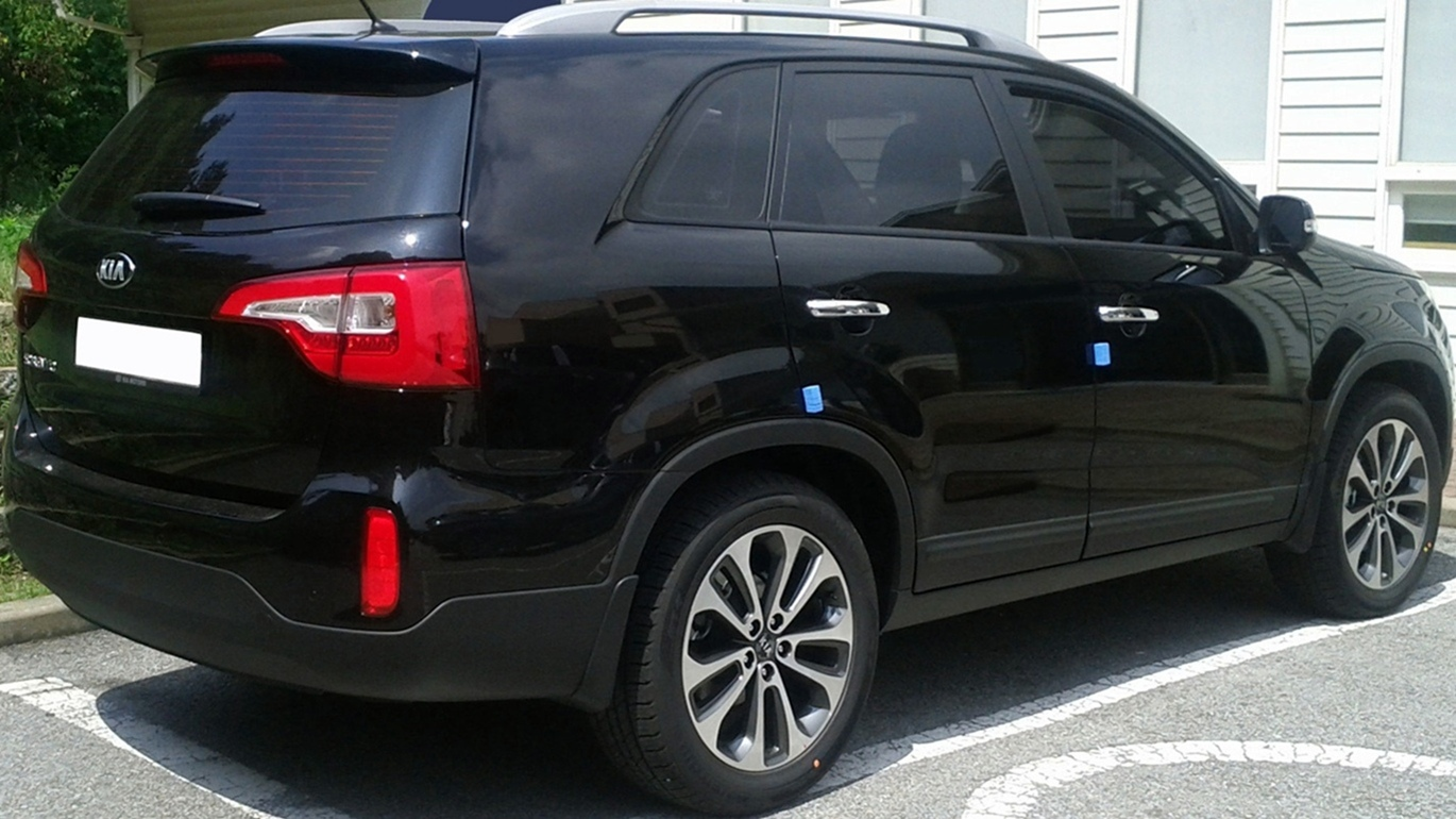 Kia New Sorento R